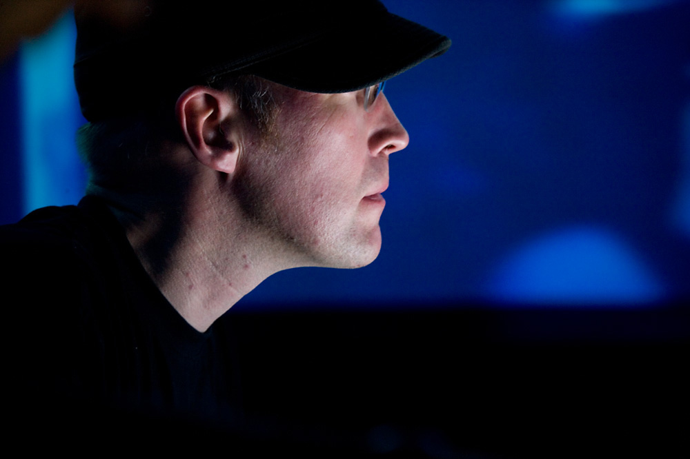 Biosphere (Geir Jenssen) photos by Randy Yau